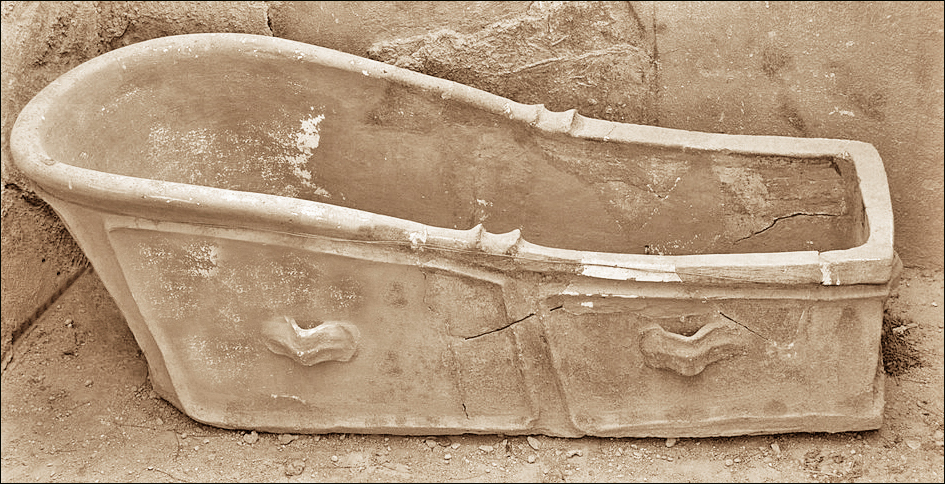 Queen's bathtub Palace of Knossos.